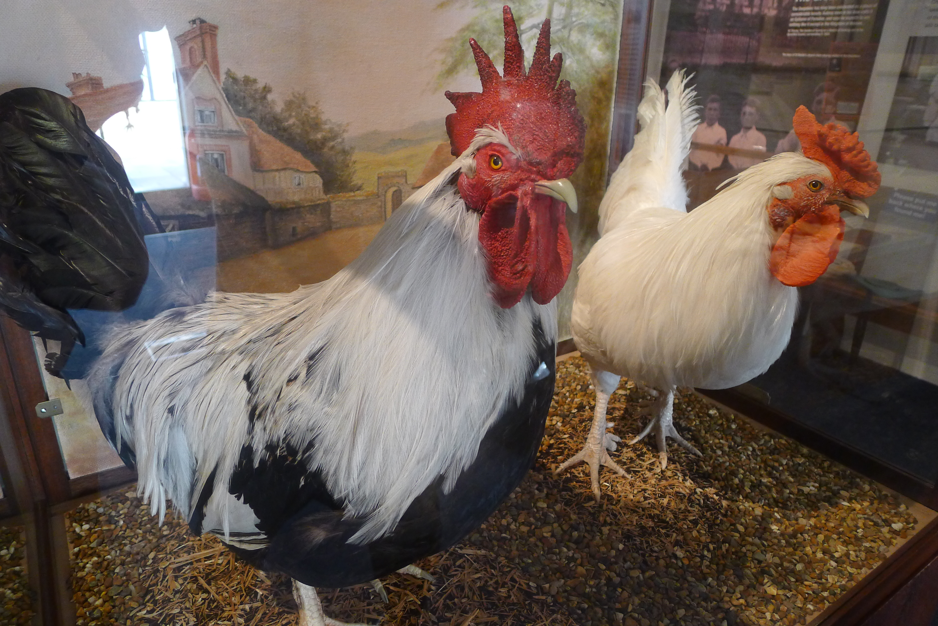 Dorking Chicken in Dorking Museum.